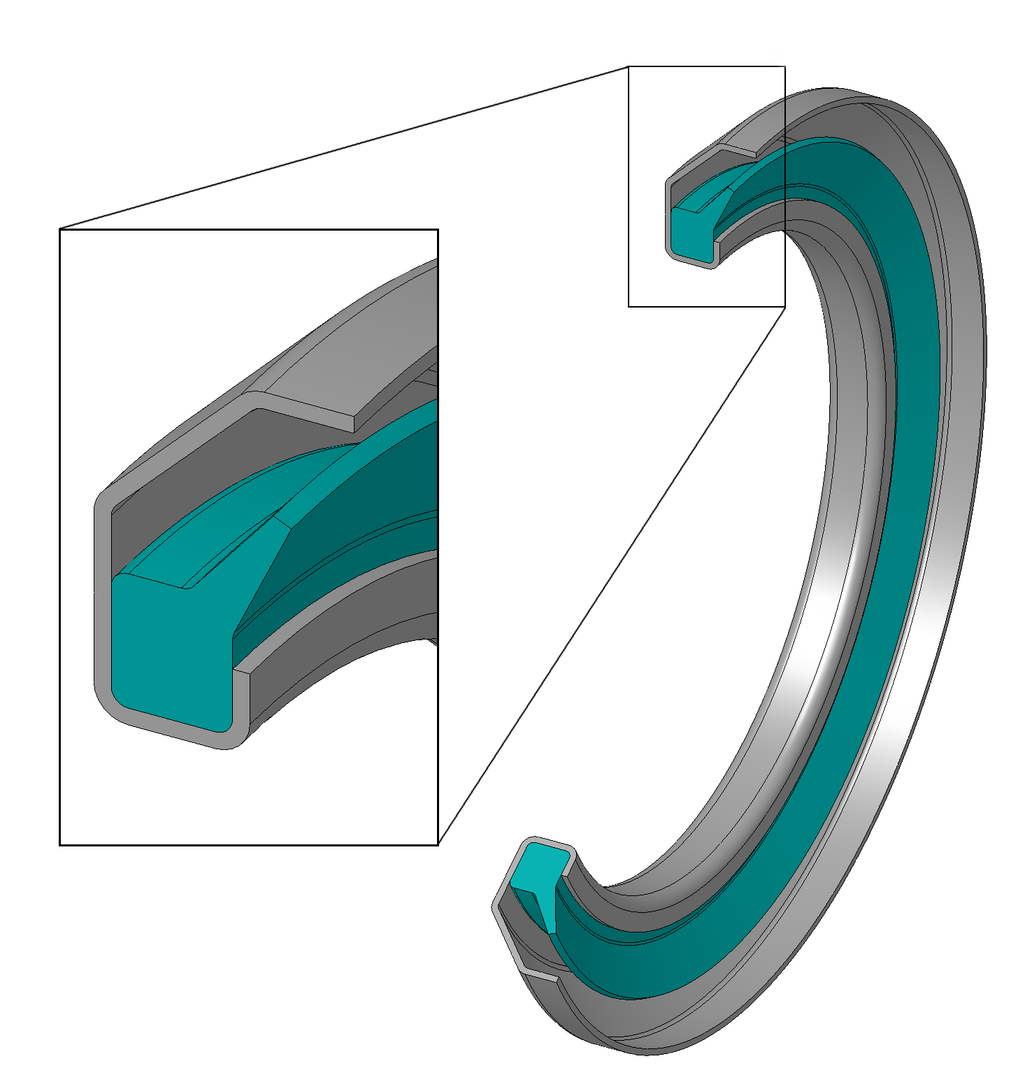 Gamma seal, type 9RB with secional view and detail